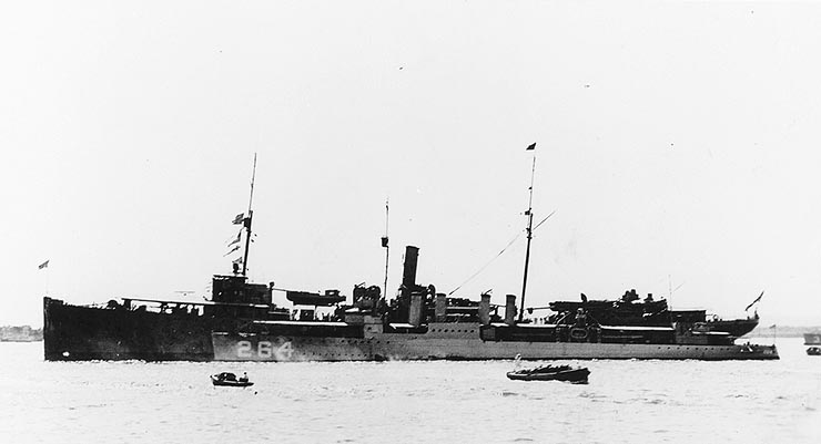 The U.S. Navy destroyer USS McLanahan (DD-264) tied up alongside destroyer tender USS Melville (AD-2) at San Diego, California (USA), 1919. The bow of USS Reno (DD-303) is visible in the right distance.